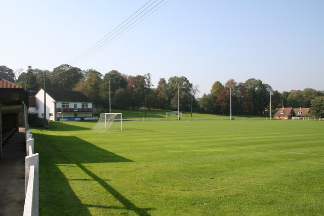 Home ground of Corinthian F.C. (Kent)